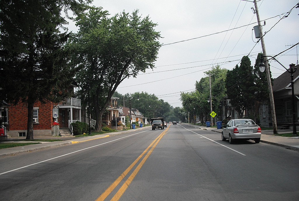 Vue sur la route 344, dans L'Assomption (région de Lanaudière), Québec, Canada.